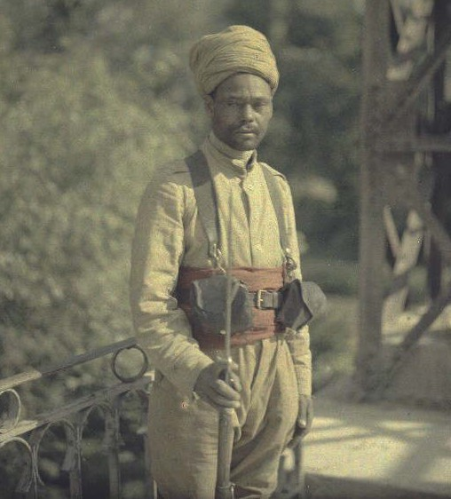 Algerian fighter in WW one